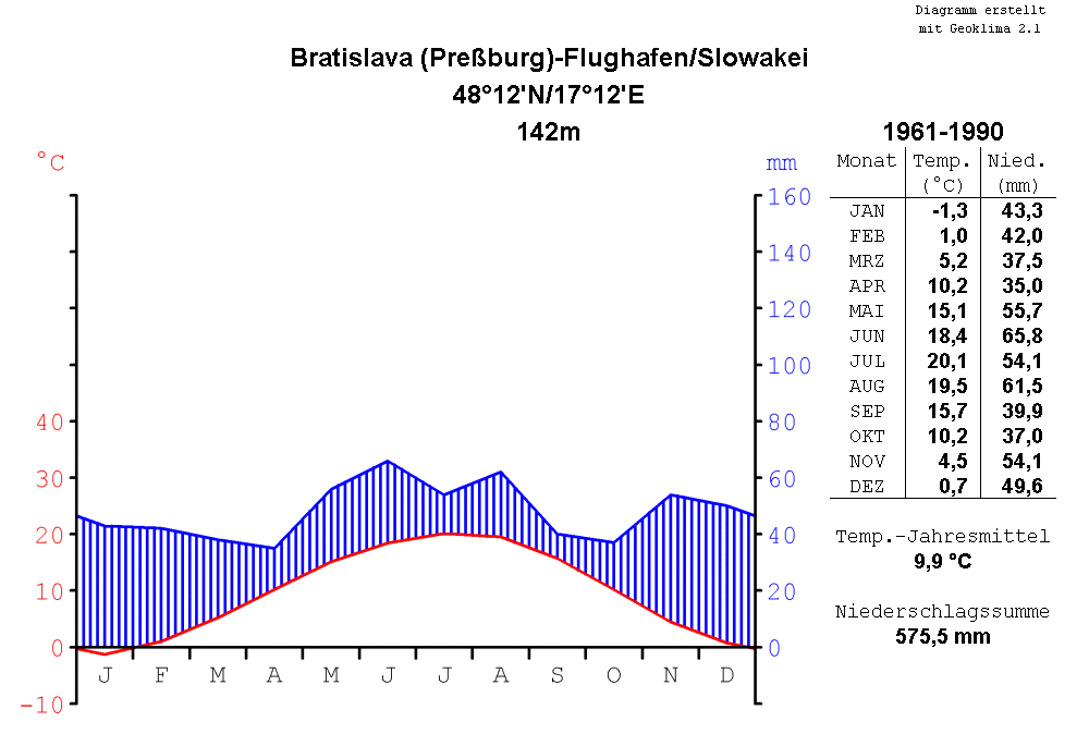 climate chart of Bratislava airport, Slovakia, for the period of time from 1961 to 1990, in the format by Walter and Lieth, metric, °Celsius and millimeters, chart made with Geoklima 2.1, label in German